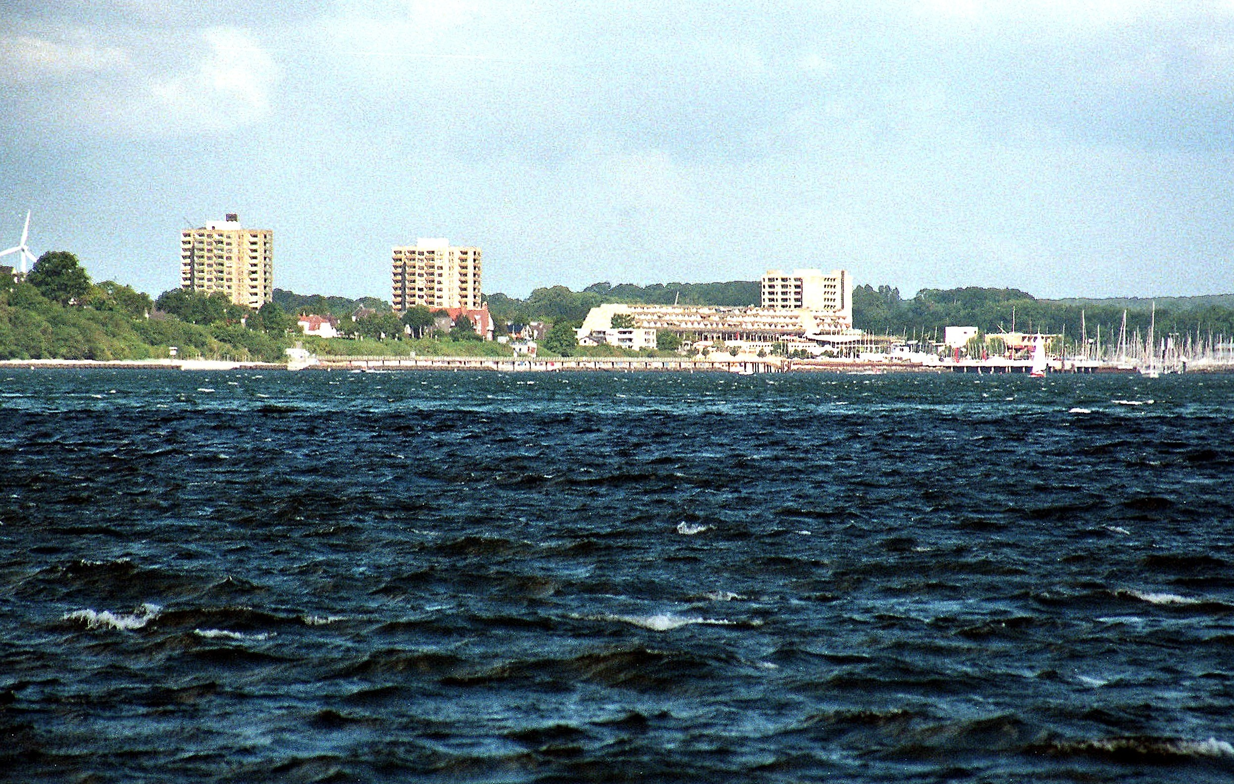 Stein, view from the jetty to Strande